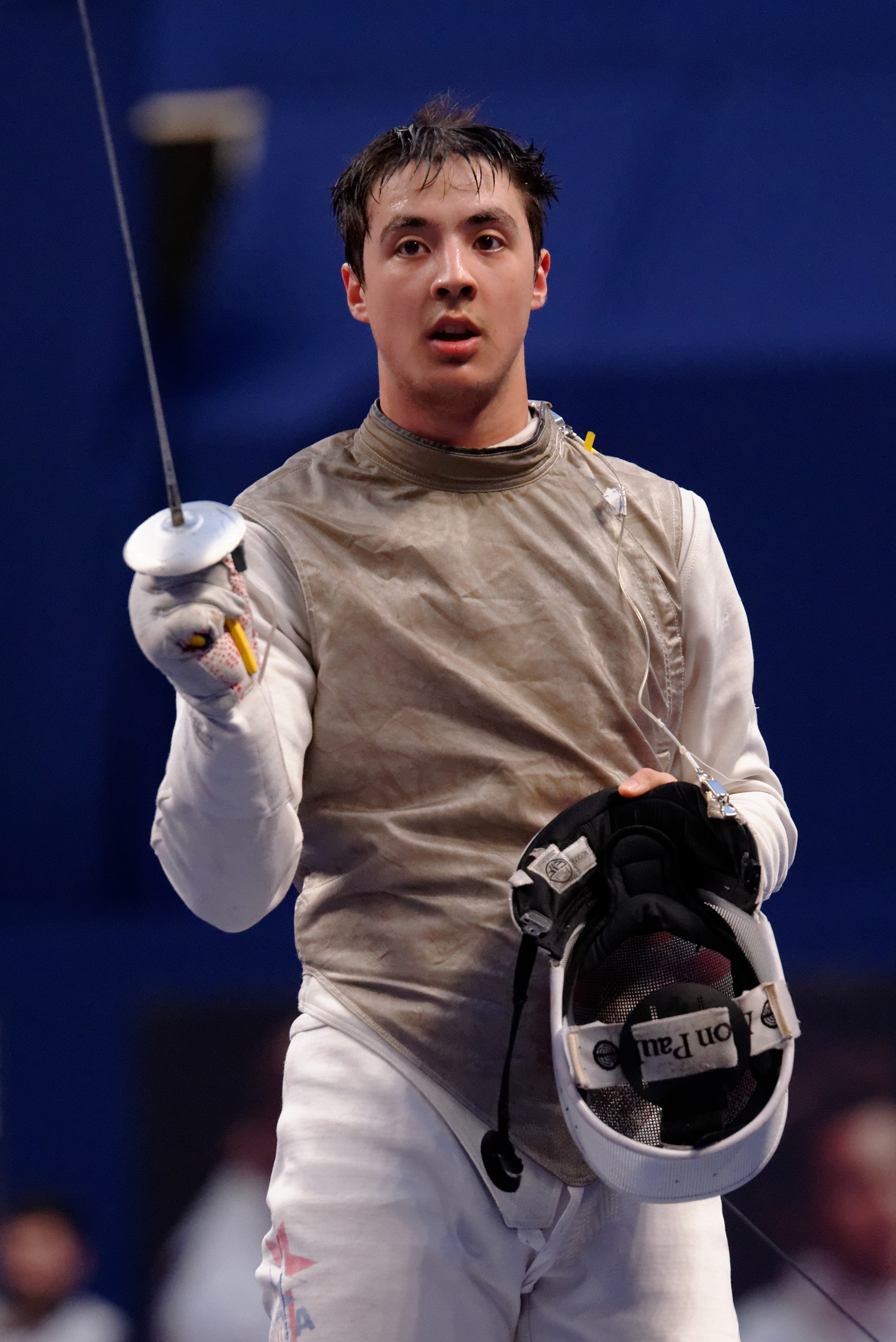 USA's Alexander Massialas at the individual event of the 2015 Challenge International de Paris, a men's foil World Cup competition.